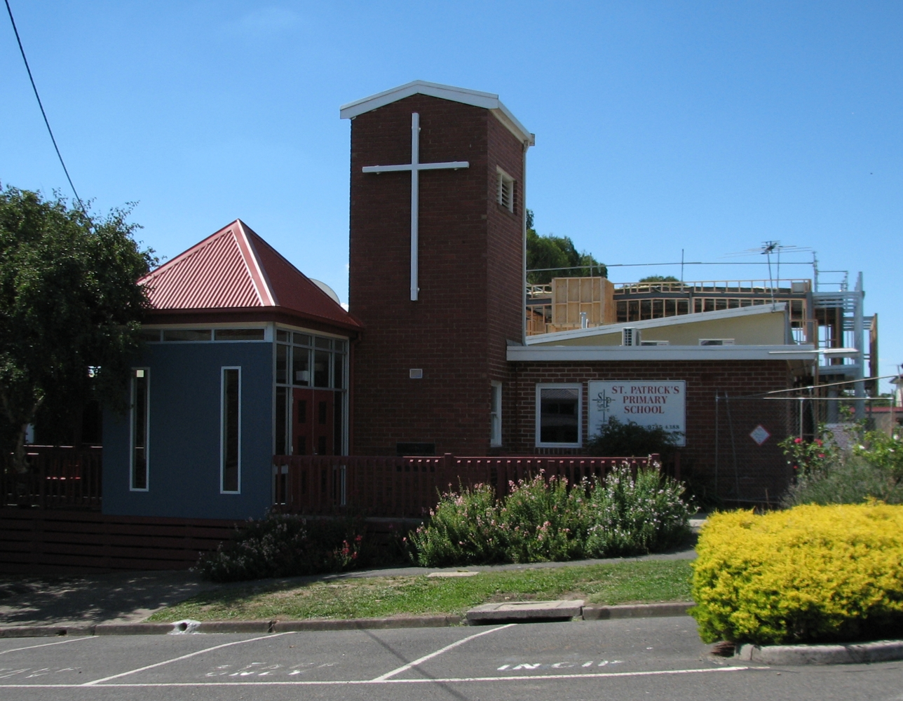 St Patricks Primary School, Lilydale, Victoria, Australia